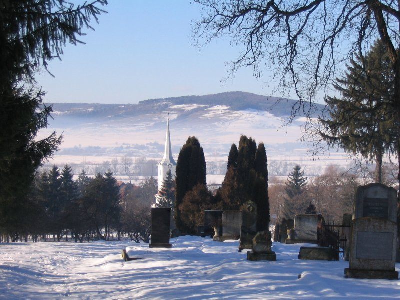 Tălişoara (hu. Olasztelek), Covasna County, Transylvania, Romania